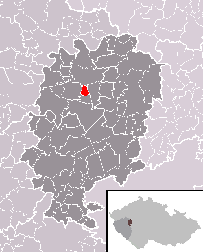 Location of Chomle municipality within Rokycany District and within identical administrative area of Rokycany as a Municipality with Extended Competence.